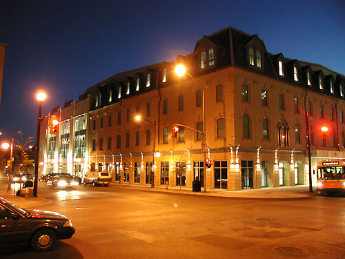 The John Labatt Centre in London, Ontario, Canada. Taken on October 30, 2002 - this image shows the north-east corner of the building, at the corner of Dundas and Talbot streets. This corner of the building is a replica of the Talbot Inn, which originally stood here.